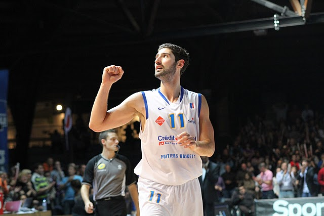 Basketball player Pierre-Yves Guillard